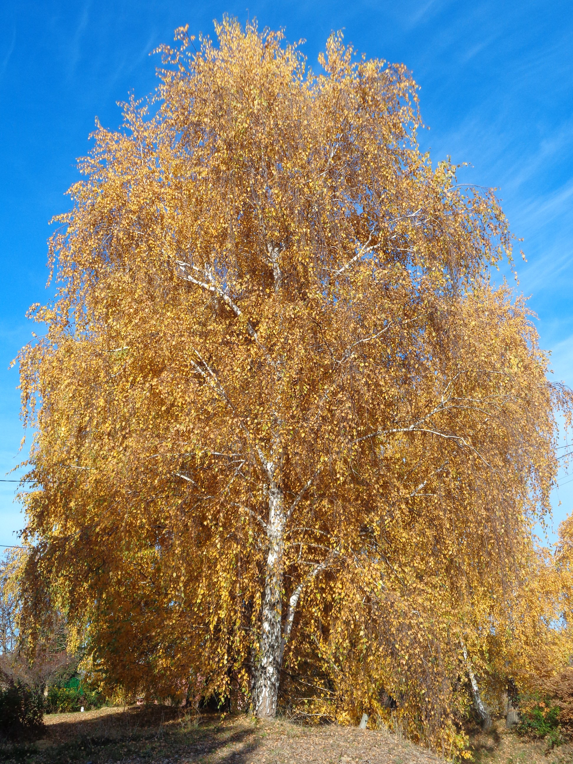 Birch tree in autumn (Međimurje County, Croatia)